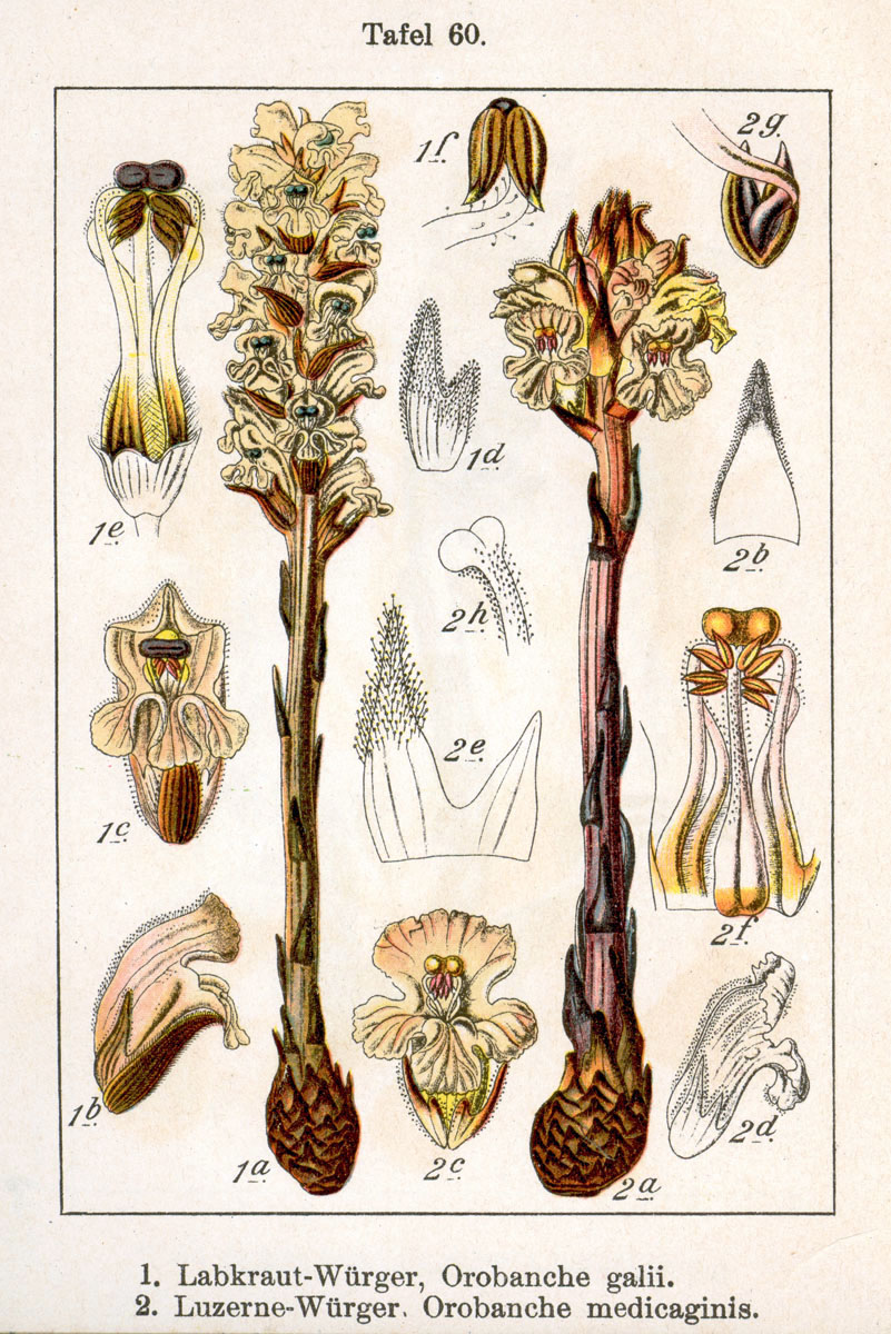 1. Orobanche caryophyllacea Sm., syn. Orobanche galii Duby : 2. Orobanche lutea Baumg., syn. Orobanche rubens Wallr., Orobanche medicaginis Duby Original Description 1. Labkraut-Würger, Orobanche galii2. Luzerne-Würger, Orobanche medicaginis